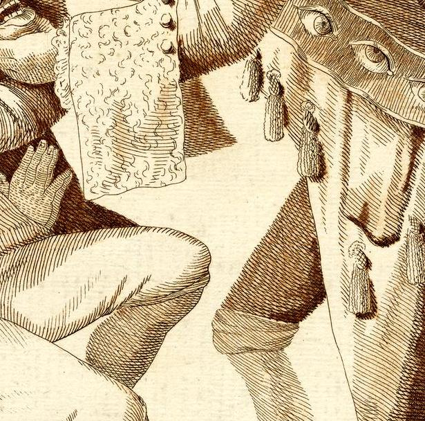 For description and further information, see 1854,1113.51. 1770 Etching in brown ink and brown surface tone